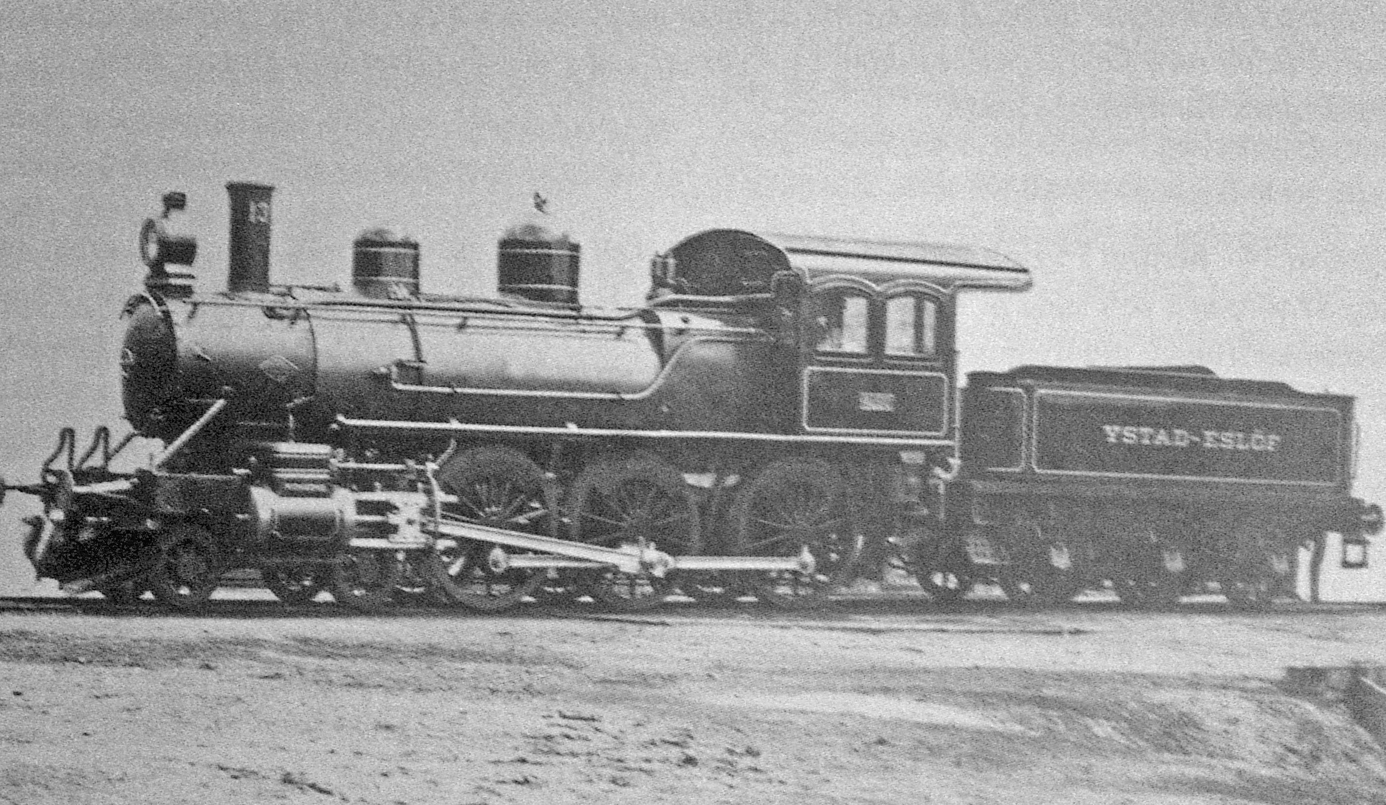 Deliverance Photo of Engine no 13, ALBO taken outside Richmond factories 1899. This engine was sent together with 2 more to Ystad-Eslöv Railway Company in Skåne, Southern Sweden.